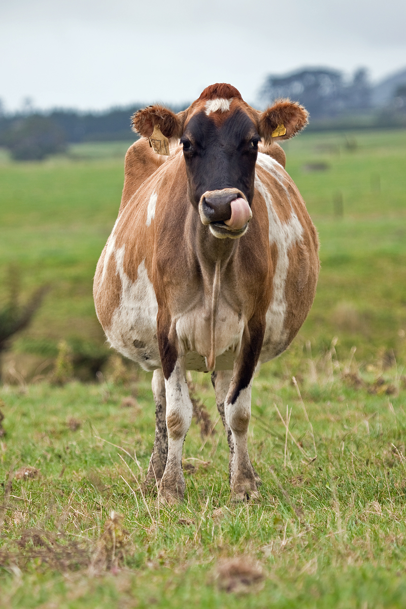 A nose-licking cow near Okato, New Zealand